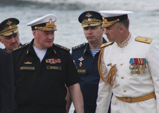 A combined rehearsal of the Main Naval Parade took place in St. Petersburg and Kronstadt and was led by Admiral Vladimir Korolyov, the Commander-in-Chief of the Russian Navy. The event was the first within the whole Parade preparation, when the sea, air and land components jointly train # during one day in a single scenario.